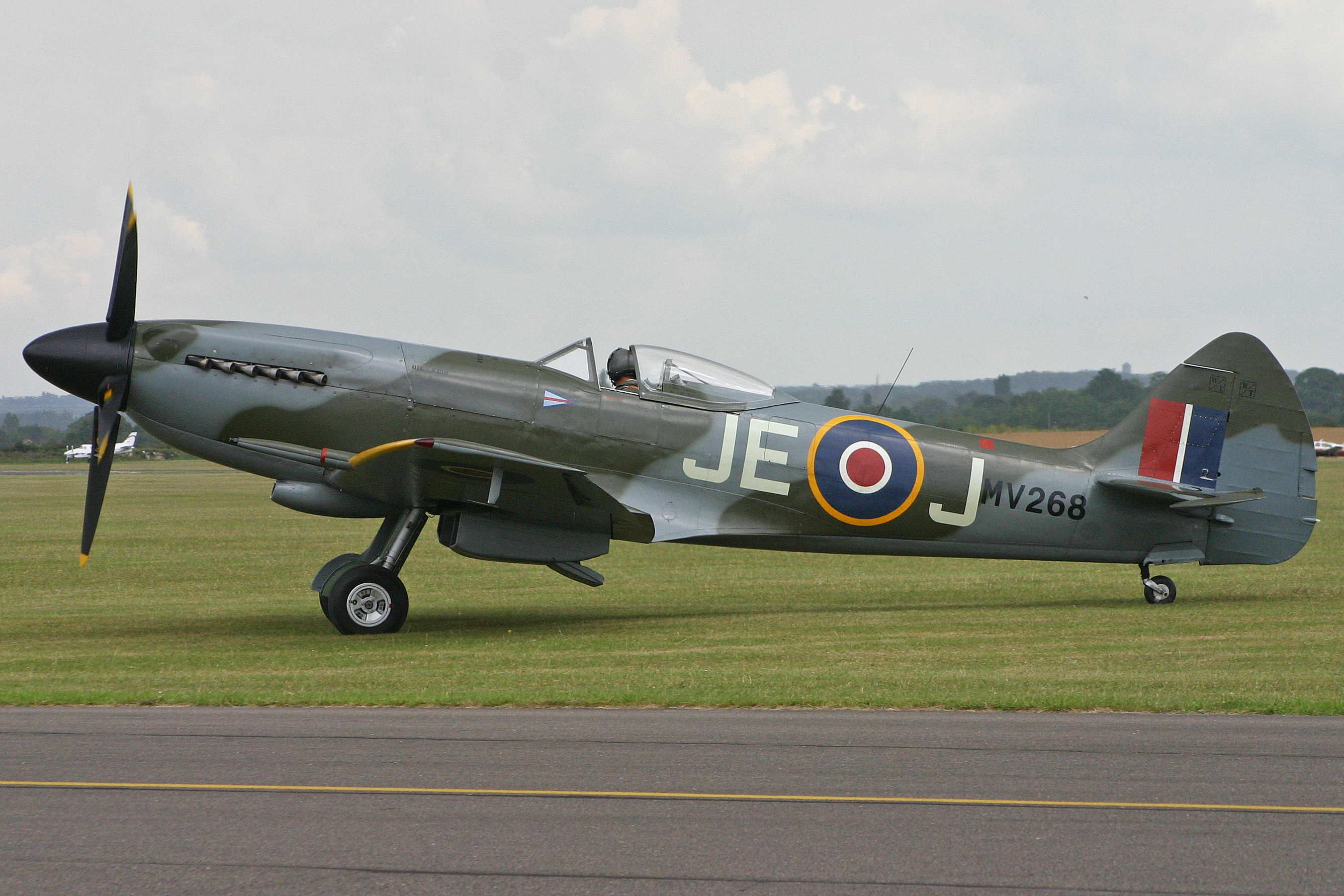 Really 'MV293'. msn WASP/20/2. Taxiing in after display. Flying Legends. Duxford. 10-7-2011